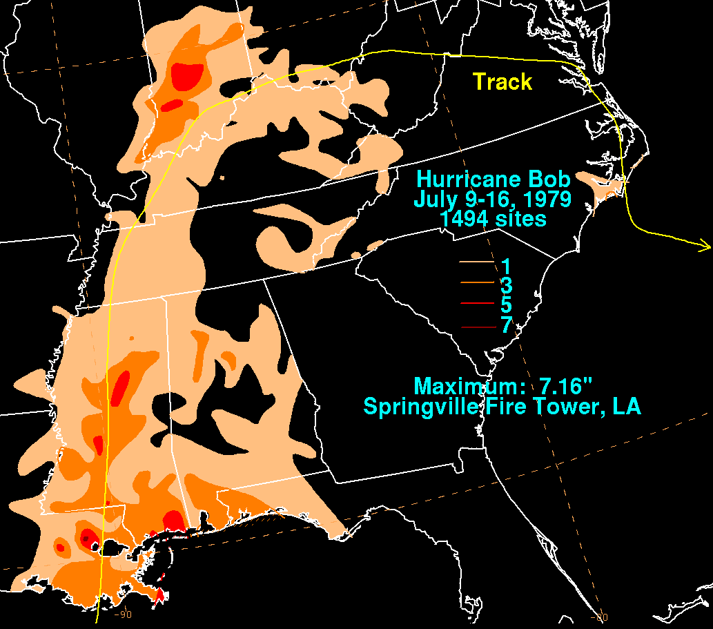 Storm total rainfall map of Hurricane Bob during July 1979.